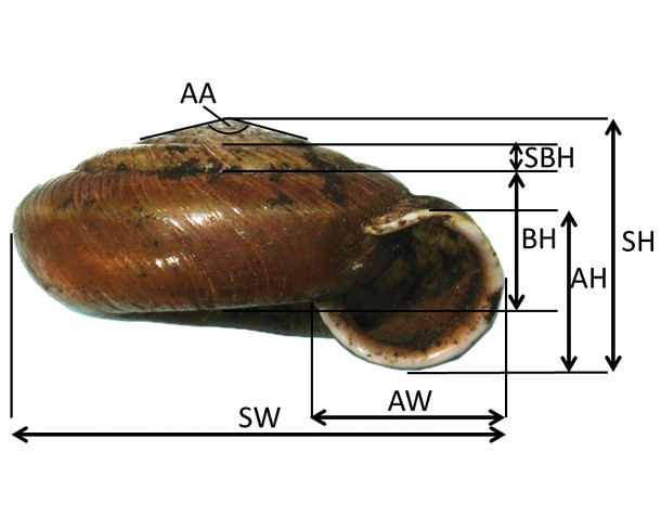 Aegista diversifamilia shell, lateral view.